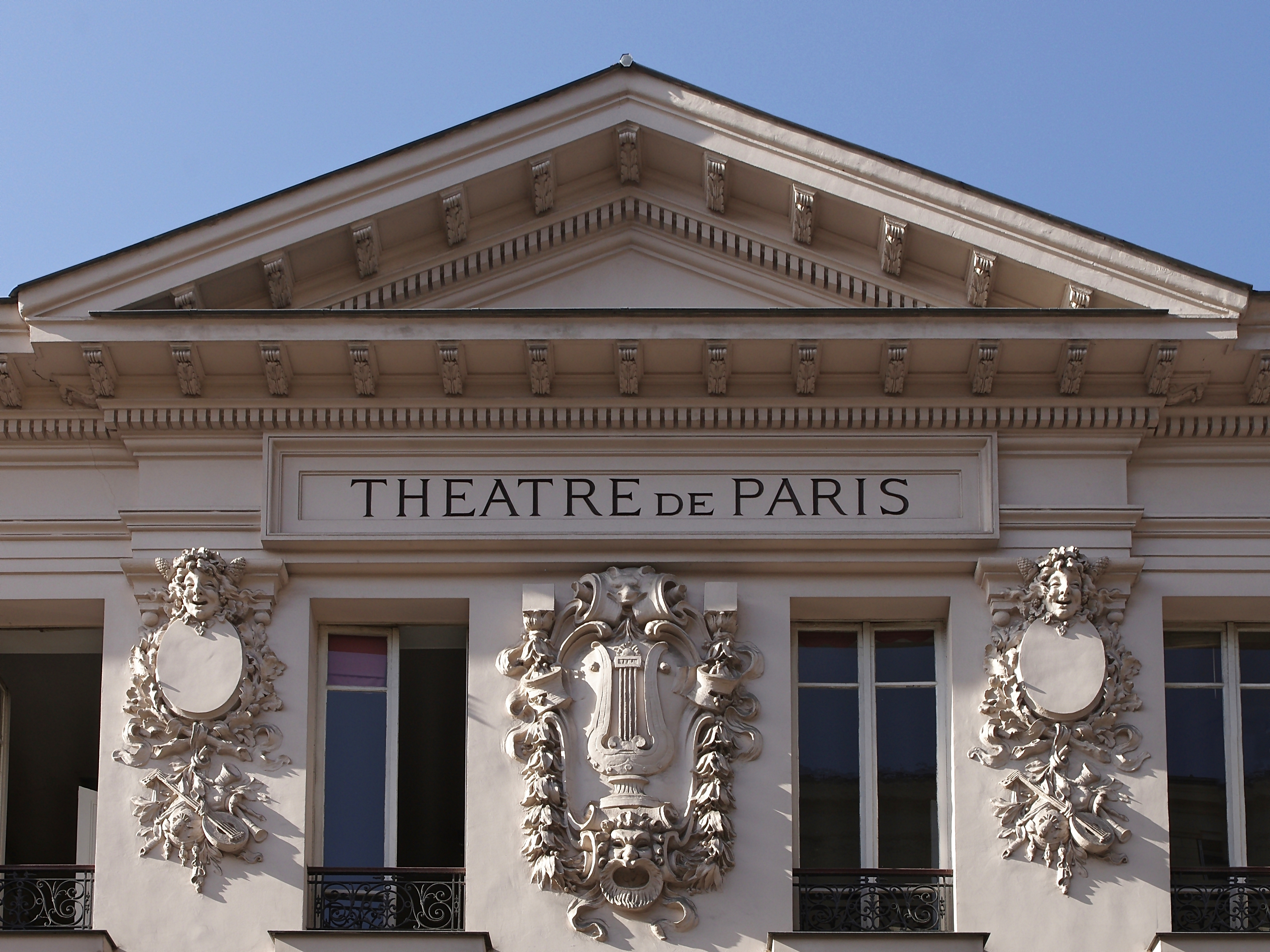 Pediment and reliefs (facade), second floor of Théâtre de Paris (1891), 15, rue Blanche, Paris, France.